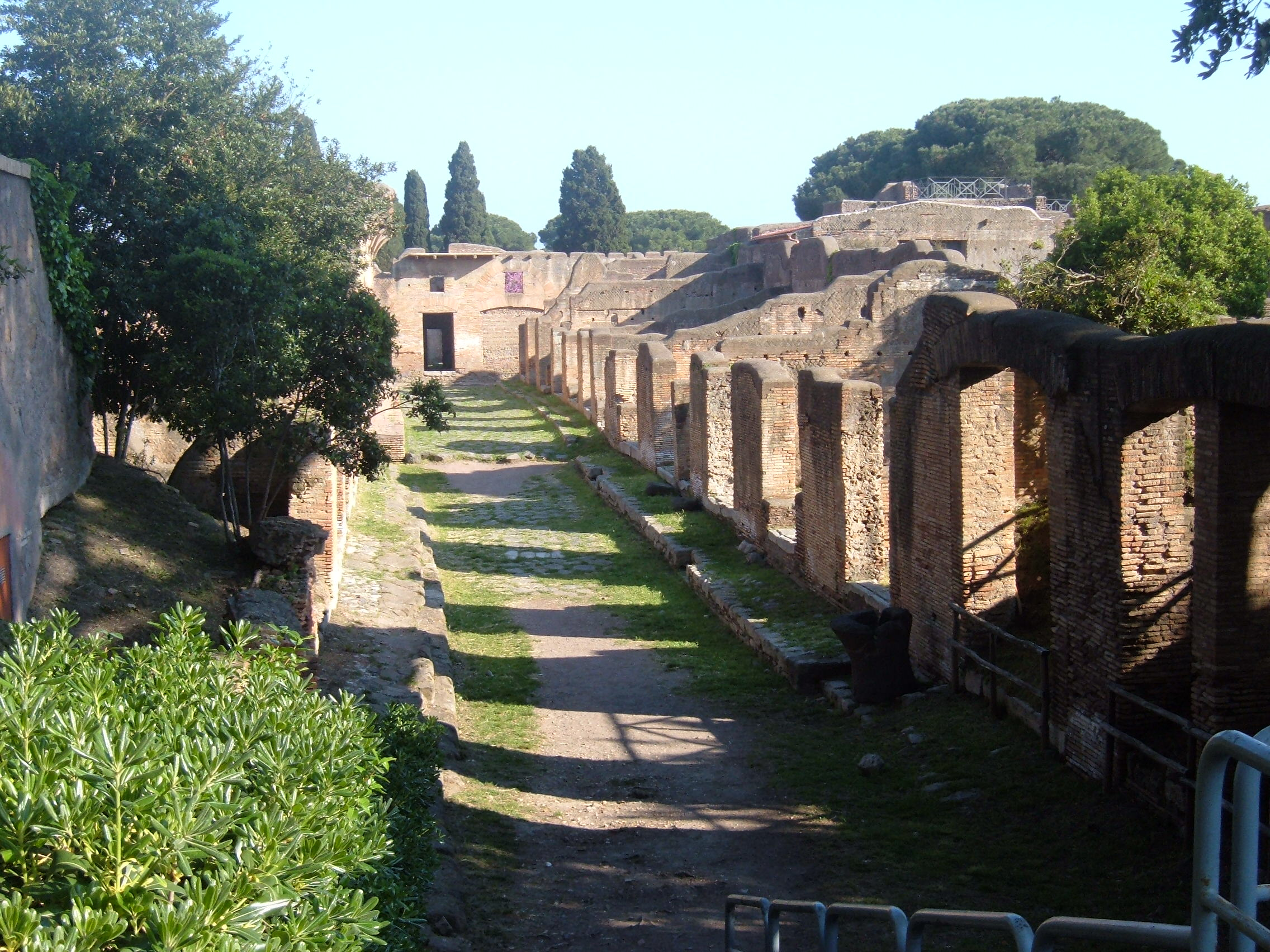 Ostia Antica, street with shops (Botteghe I,IV,1).